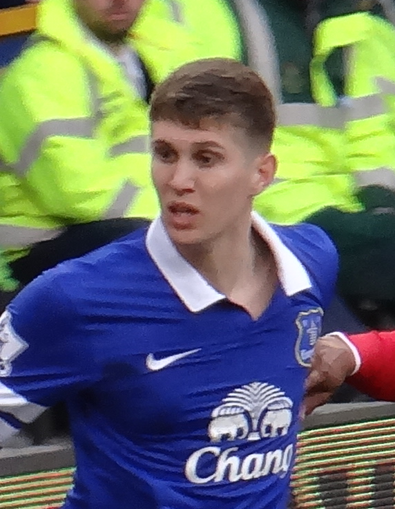 American football player Tim Howard and English John Stones (both Everton) and English player Fraizer Campbell of Cardiff City.